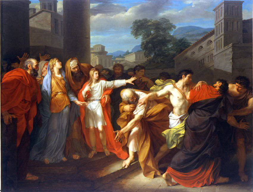 Jacques Réattu (1760–1833) Alternative names Jacques ReattuDescriptionFrench painterstudent of Jean-Antoine Julien, student of Jean-Baptiste RegnaultDate of birth/death 3 August 1760 7 April 1833Location of birth/death Arles ArlesWork location Paris, Rome, Marseille, ArlesAuthority control : Q3159943 VIAF: 29805032 ISNI: 0000 0000 8109 1952 ULAN: 500000010 LCCN: n86083435 Open Library: OL916359A WorldCat creator QS:P170,Q3159943